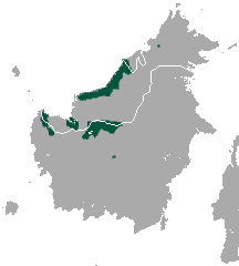 Sarawak Surili (Presbytis chrysomelas) range